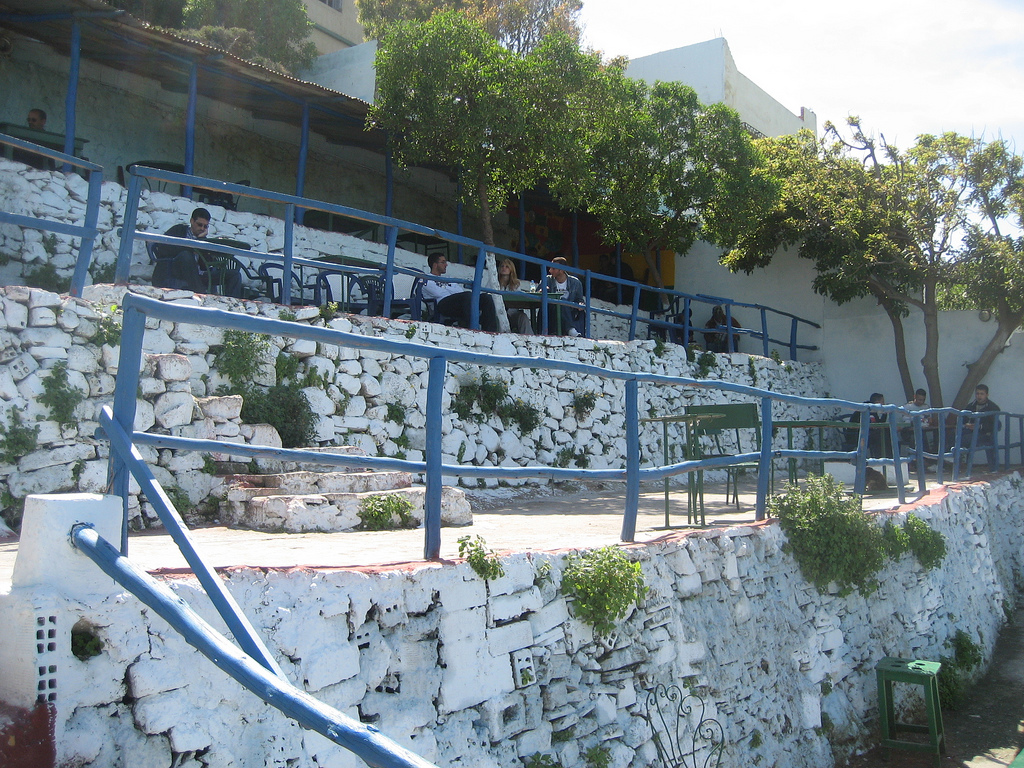 Café Hafa, Tangier